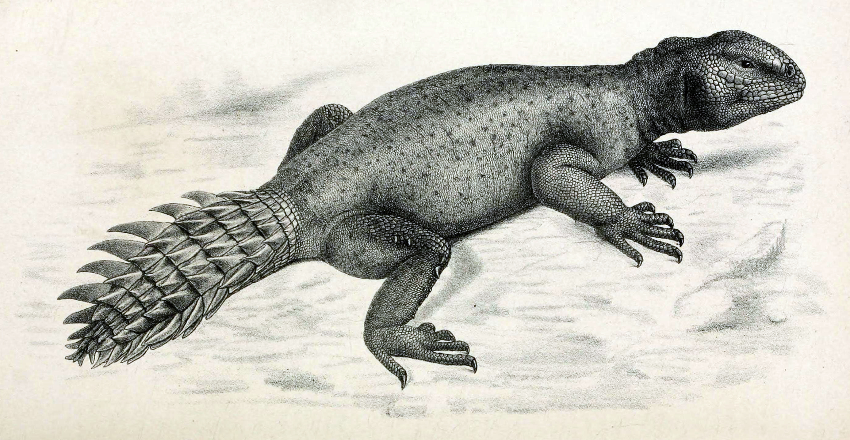 Proceedings of the Zoological Society of London.. London :Academic Press, [etc.],1833-1965..